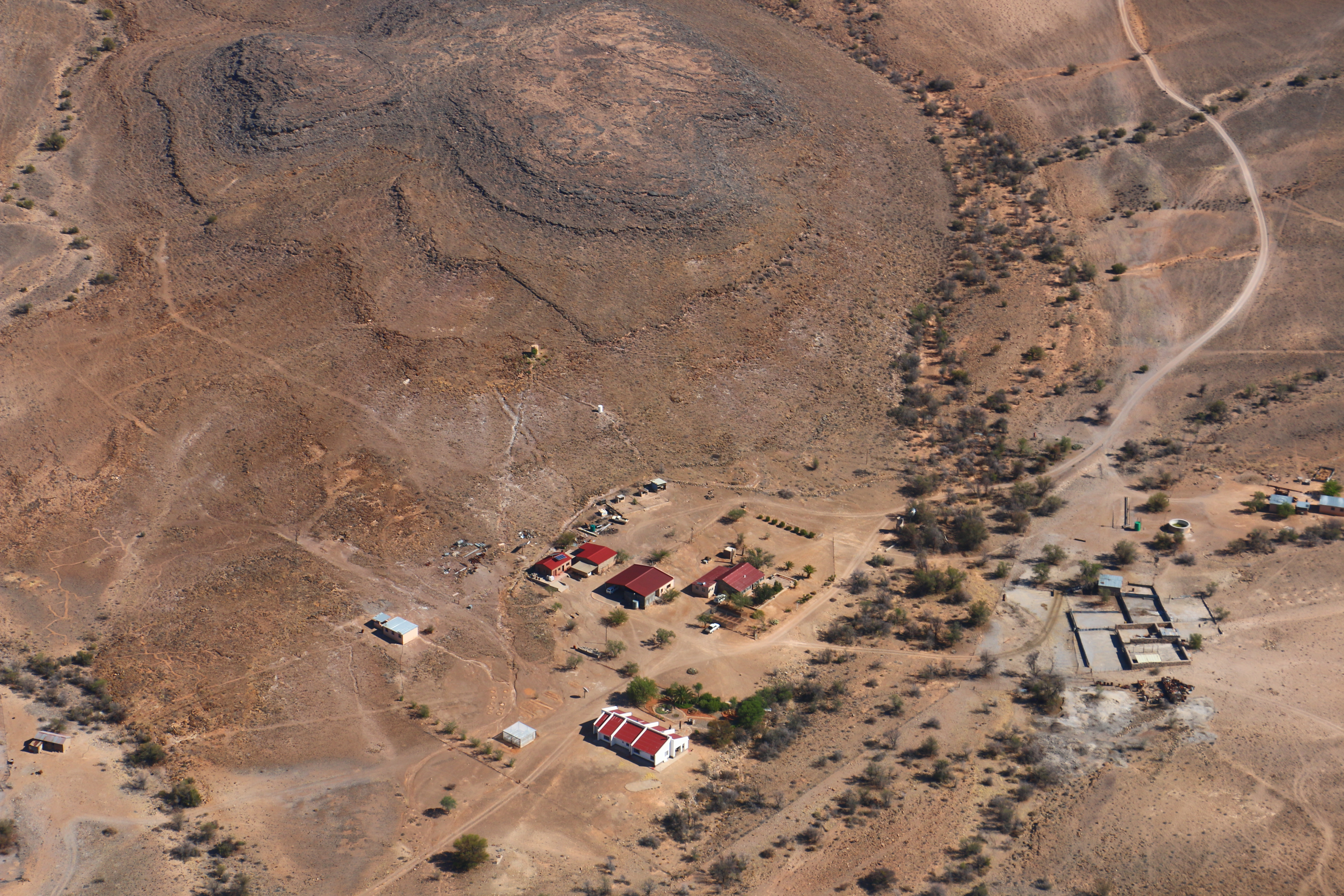 Farm Aar